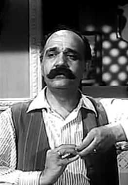 Om Prakash in the 1955 Hindi film Kundan